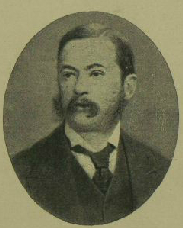 Chaloner Alabaster, British Consular Official in China